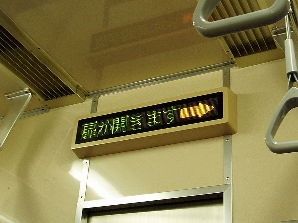 Isuhakone Railway In the car No.1 ,Information board. EMU Type 5000(5507) 2007.11.26 Photo by Cassiopeia_sweet.